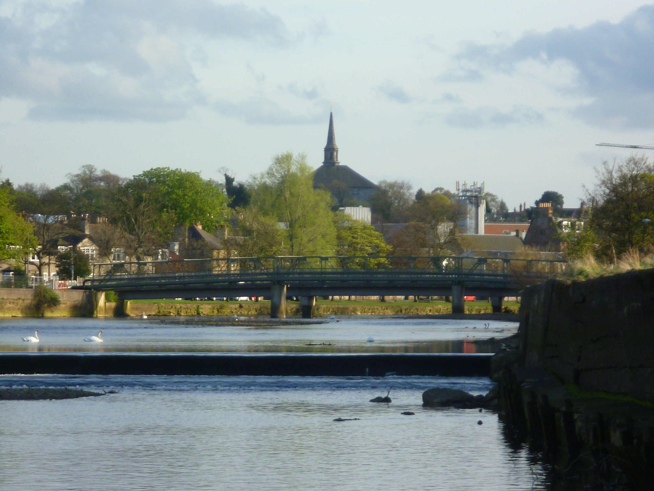 River Esk and Inveresk Church at Musselburgh